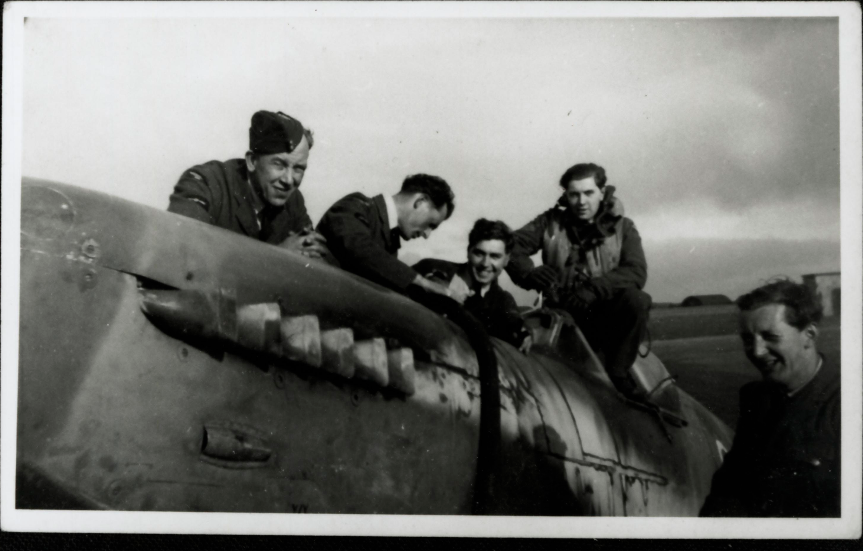 Ground crew and pilot of 452 Sqn, pictured at RAF Andreas